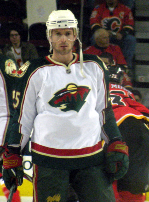 Minnesota Wild forward Eric Belanger during warm-up prior to a National Hockey League game against the Calgary Flames in Calgary.